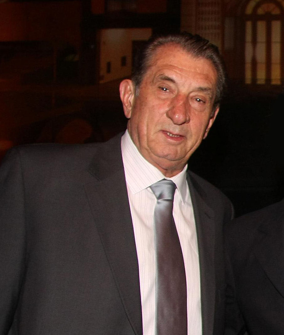 Former Boca Juniors player, Antonio Rattín, pictured during a meeting with the Chief of Goverment of Buenos Aires, Mauricio Macri.